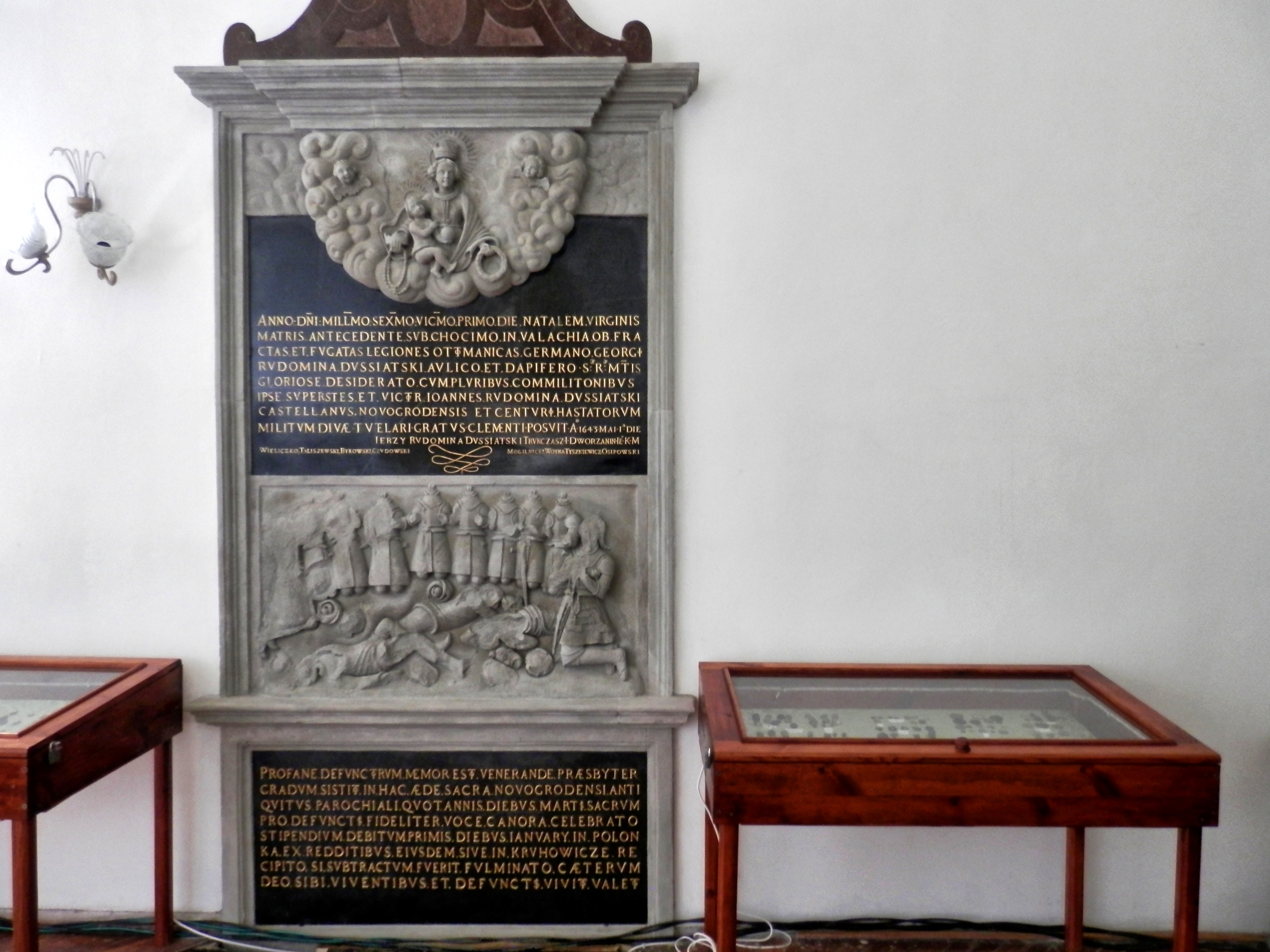 Transfiguration Roman Catholic Church in Navahrudak (XVIII century)